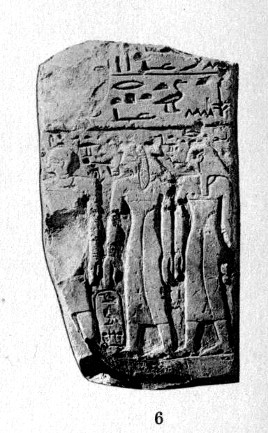 Ancient Egyptian fragmentary stela depicting queen Sobekemsaf (center) along with other relatives. From Edfu in Upper Egypt, 17th Dynasty, Second Intermediate Period. Now In Cairo Museum, JE 16.2.22.23.